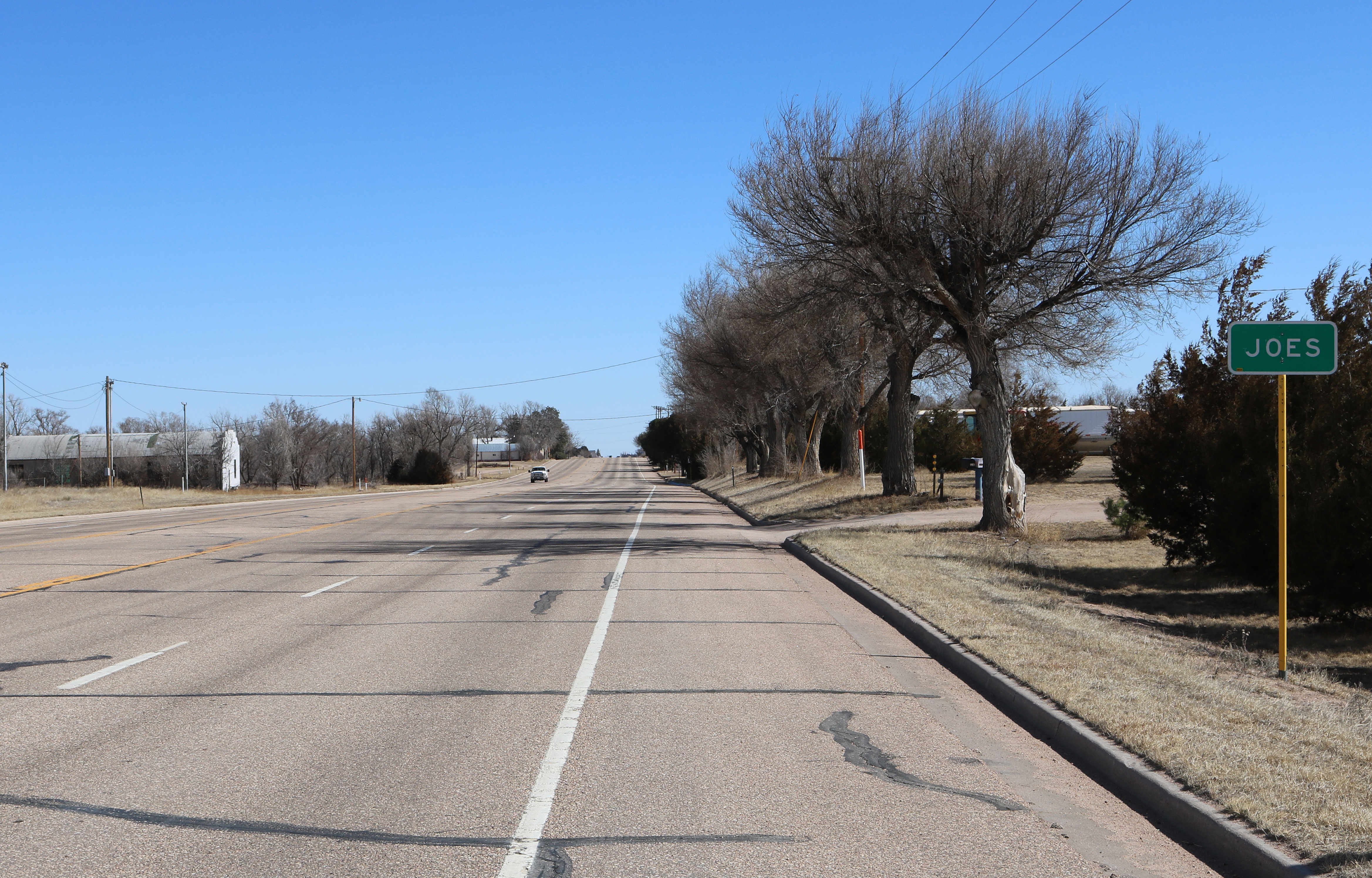 Joes, Colorado. The view is looking east along U.S. Route 36.